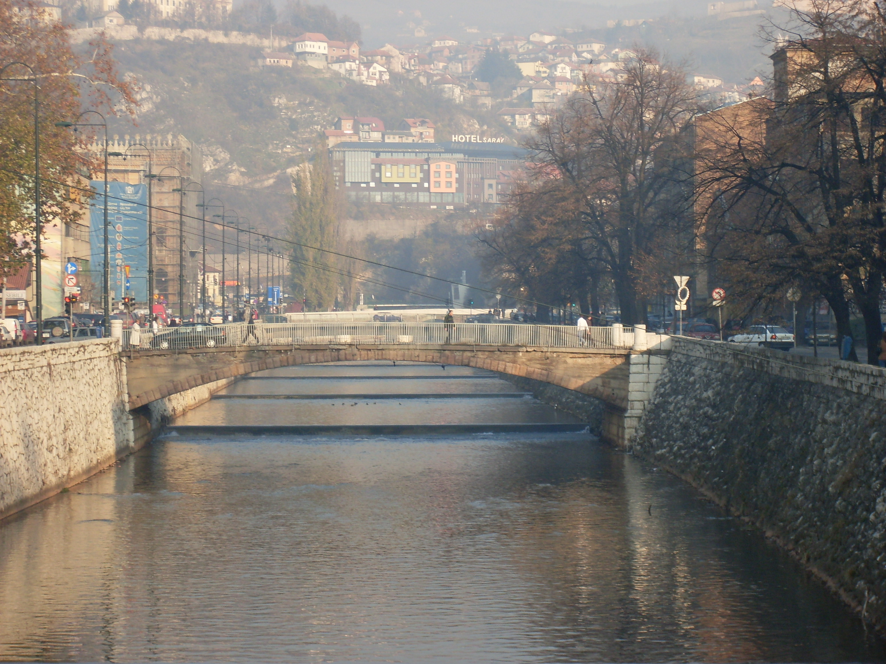 Emperor's bridge in Sarajevo